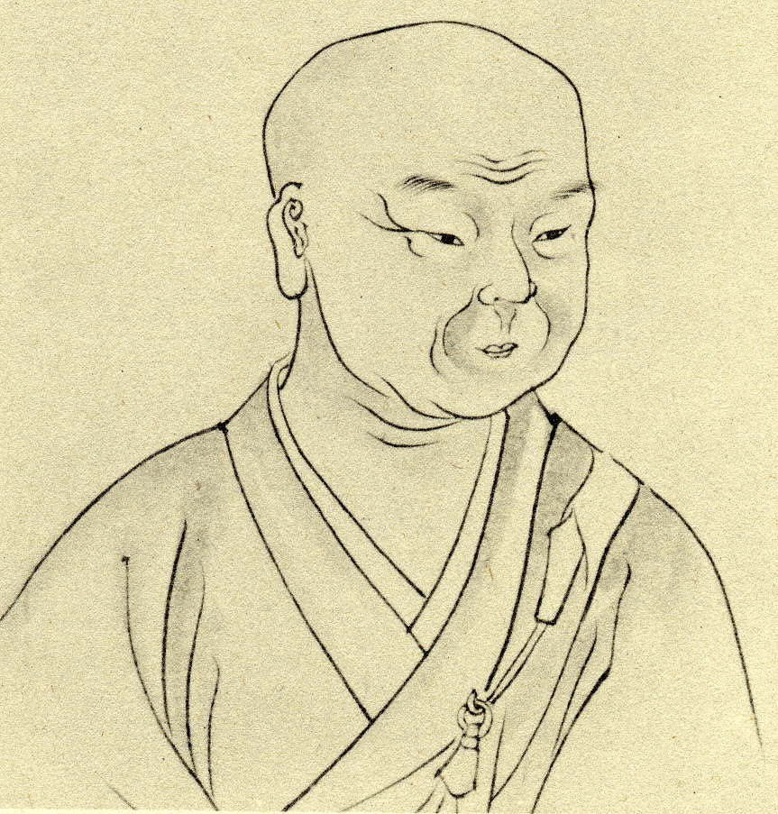 Keichū (契沖 1640 - 1701) was a Buddhist priest and a scholar of Kokugaku in the mid Edo period.